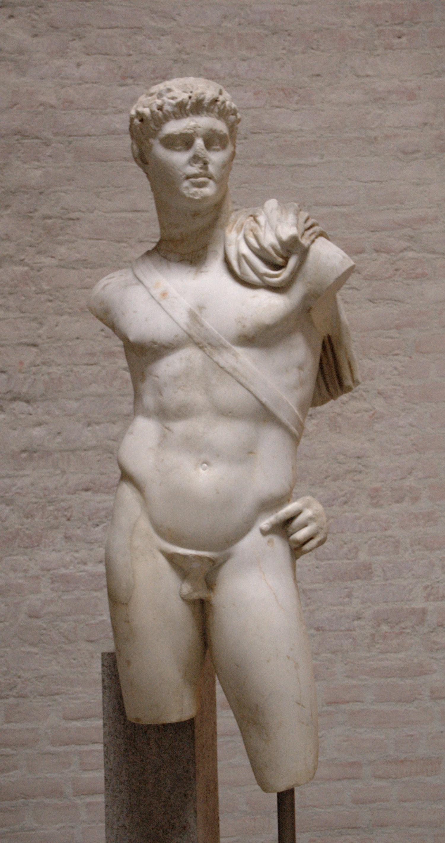 Heroic statue of Domitian as prince (emperor 81–96 CE). 70–80 CE.